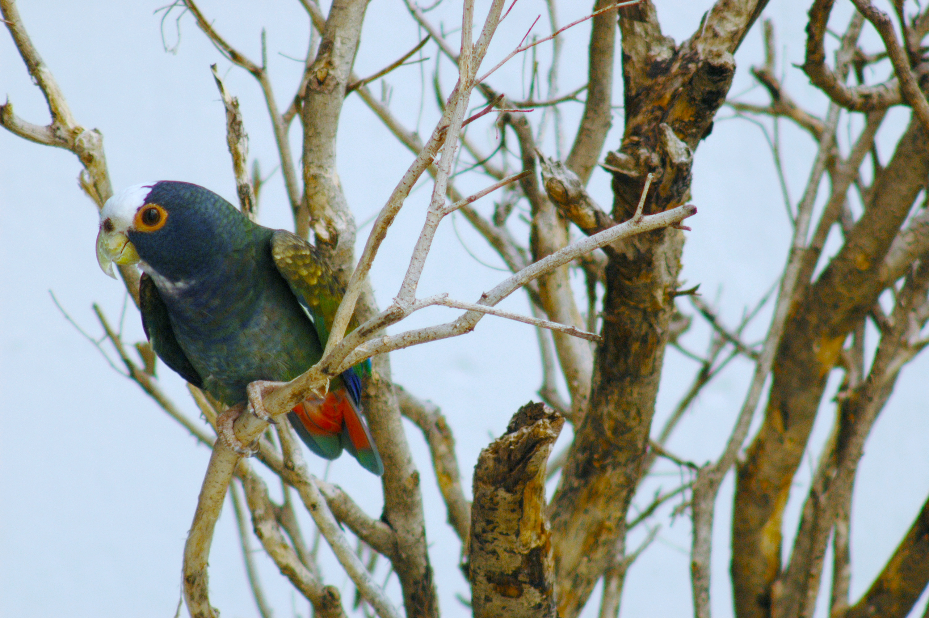 (Pionus Senilis) White-crowned Parrot in a tree.